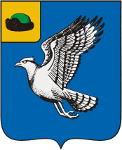 Skopin (Ryazan oblast), coat of arms